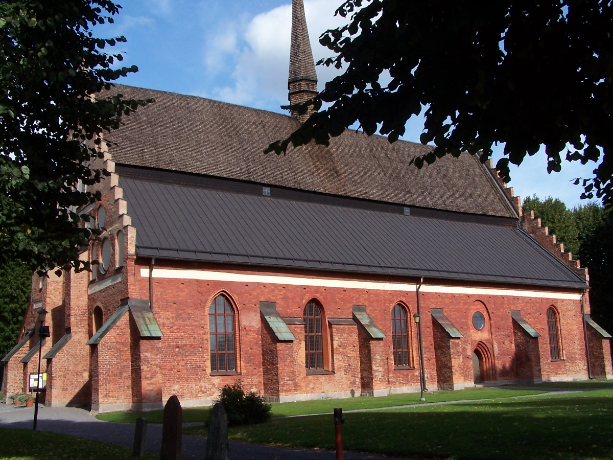 The pulpit in Sankt Laurentii church, Söderköping, Sweden